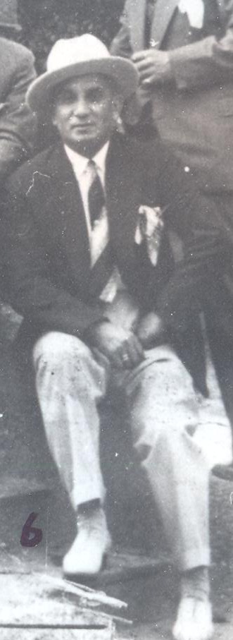 Bulgarian actor Asen Popov